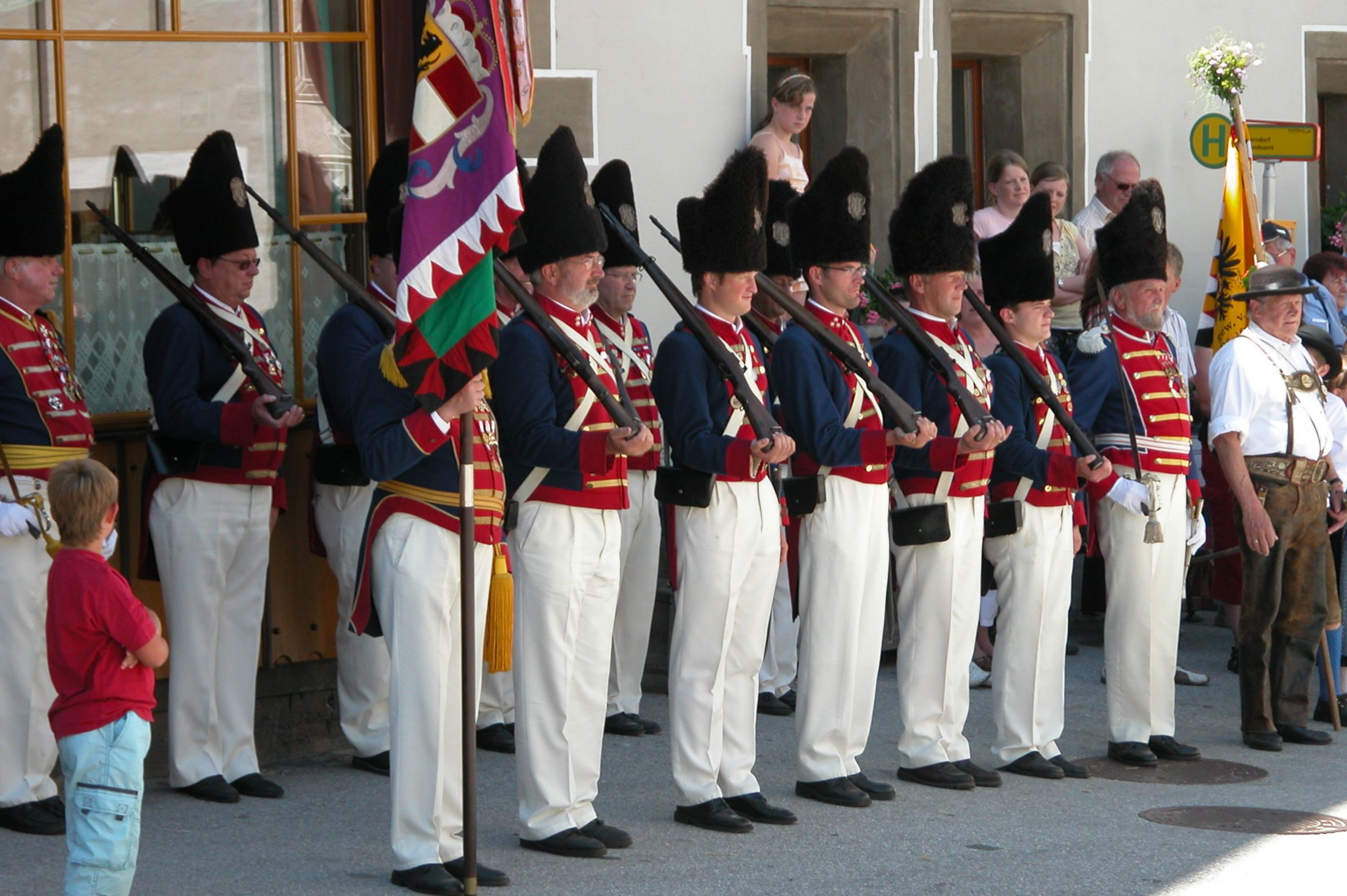 Giant Samson from Mauterndorf